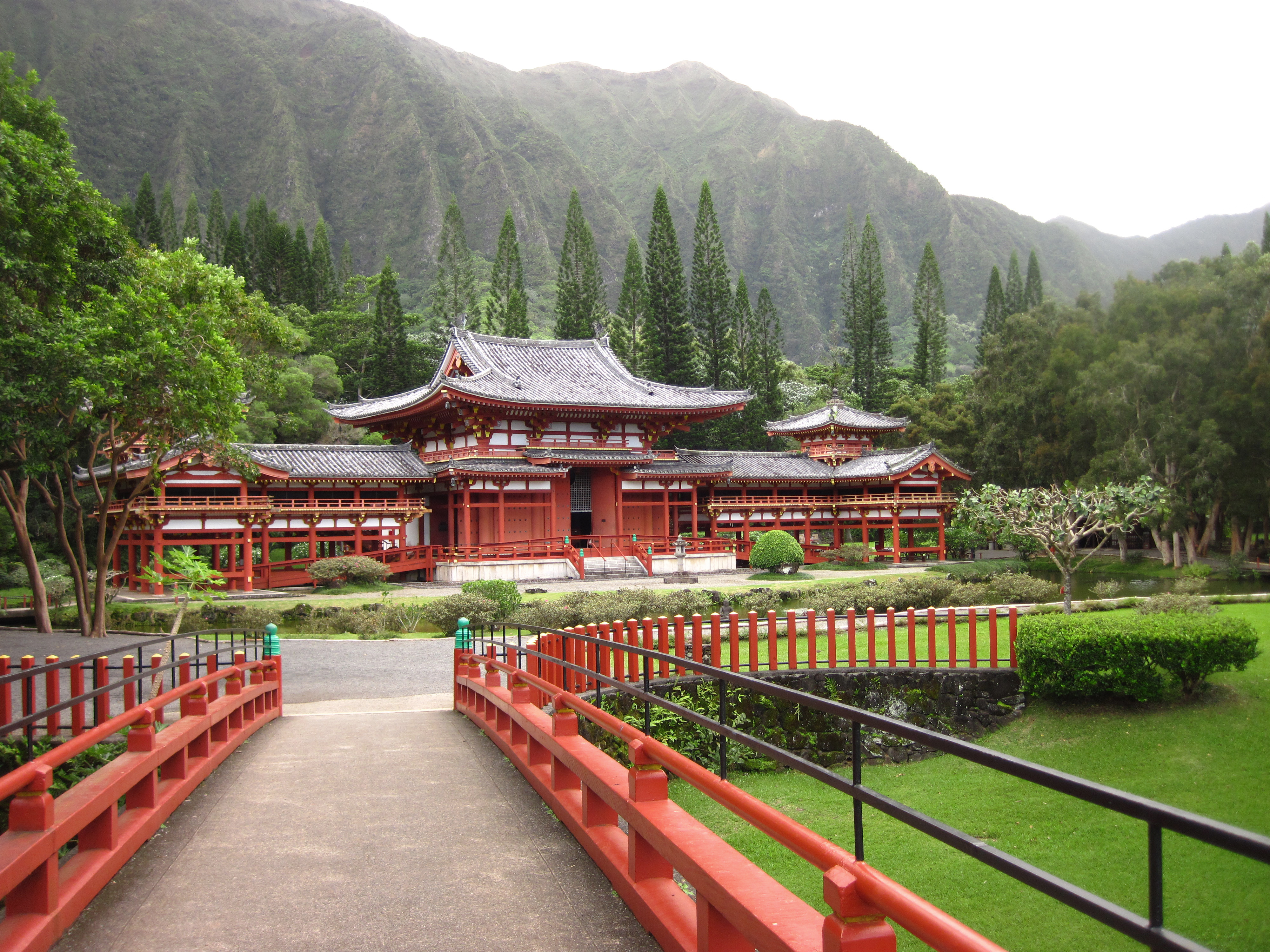 Byodo-In temple at the Valley of the Temples Memorial Park, O'ahu, Hawaii, USA.